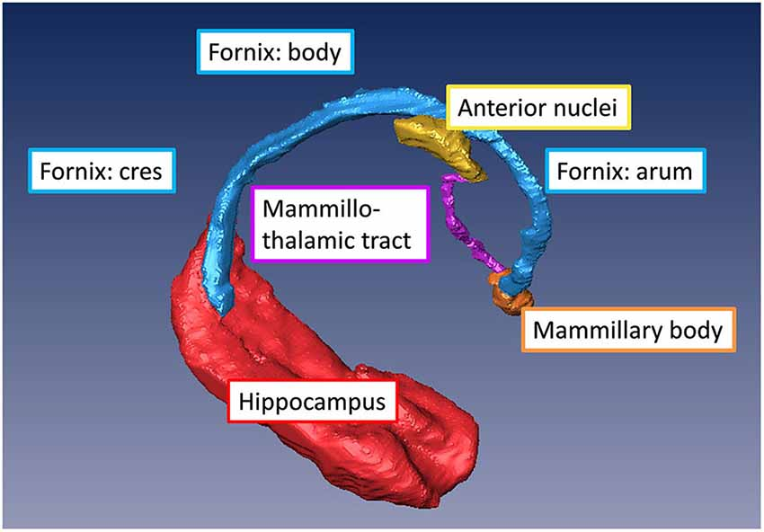 Major gray and white matter limbic structures showing efferent connections of the hippocampal formation to the mammillary body (via the fornix) and to the anterior thalamic nuclei (via the mammillothalamic tract) reconstructed from in vivo T1-weighted MRI of the human brain.